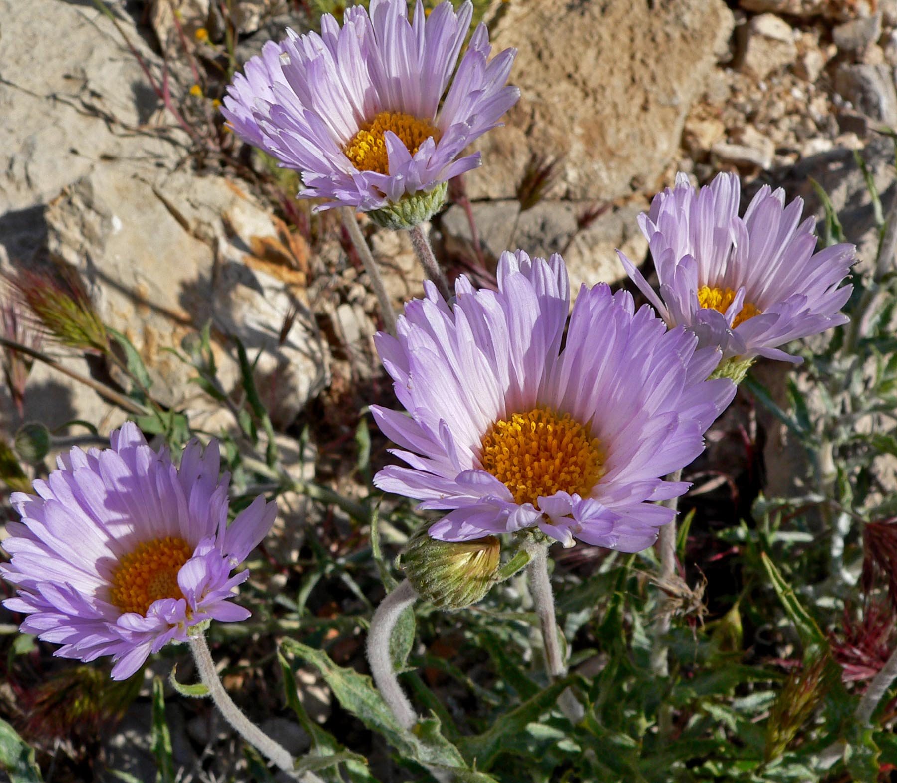 Photo of Xylorhiza tortifolia just outside Red Rock Canyon, Nevada